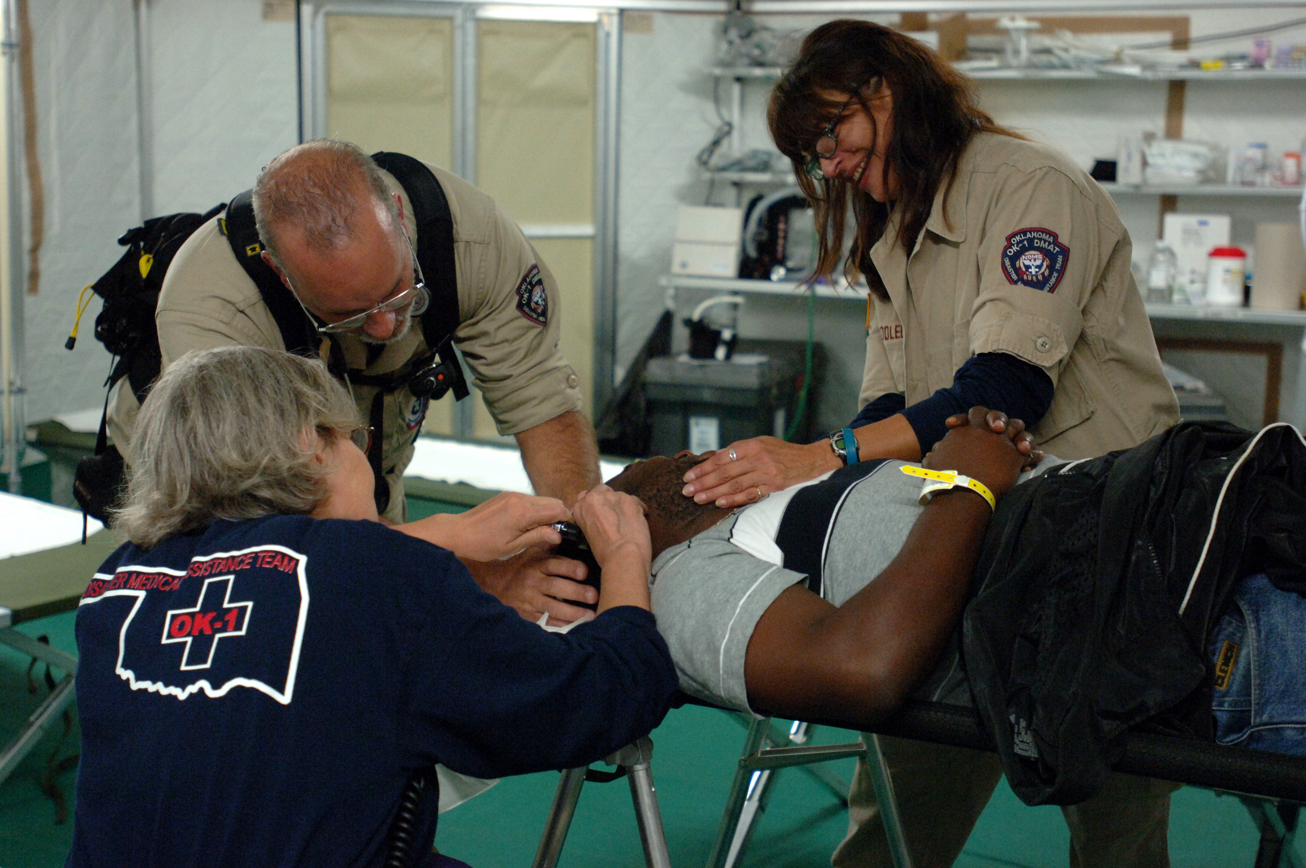 Plantation, FL, October 28, 2005 -- FEMA Disaster Mecical Assistance Team Doctor Allene Jackson, left, OK-1, checks the ear of patient Kaiano Busby of Ft. Lauderdale. The doctor is assisted by paramedic Wayne Testerman, OK-1 and Monica Woodlee, right at a DMAT set up next to Westside Regional Hospital to help with the increase of patients to the emergency room due to Hurricane Wilma. Jocelyn Augustino/FEMA